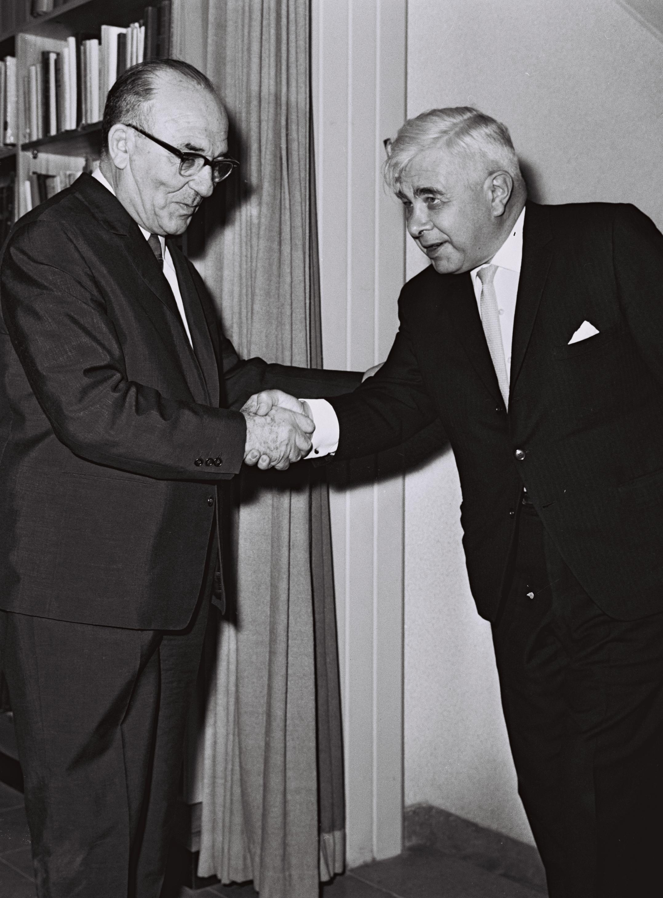 P.M. LEVY ESHKOL WELCOMING ICELAND P.M. BJARNI BENEDIKTSSON TO HIS OFFICE IN JERUSALEM.